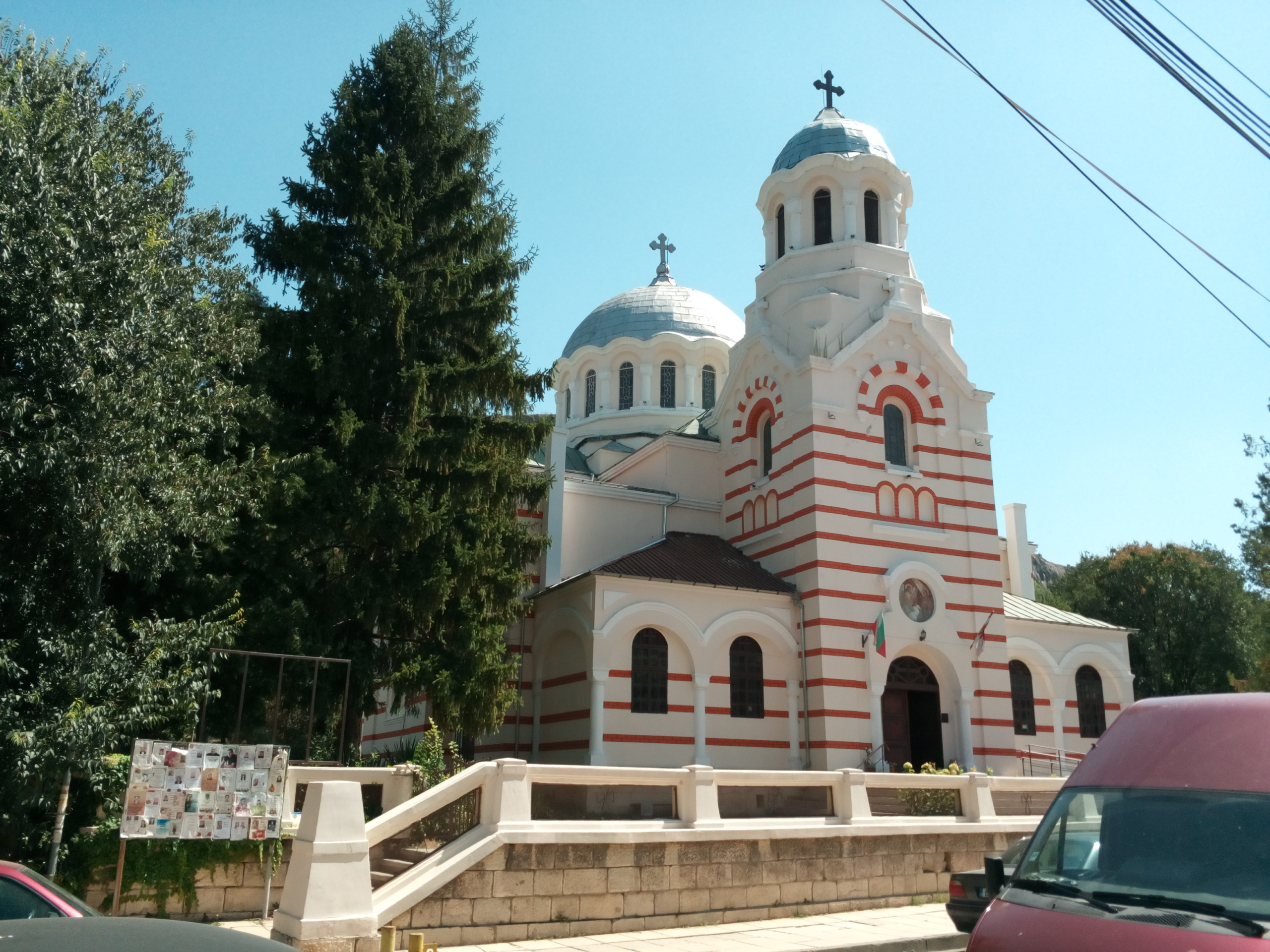 Church in Provadia